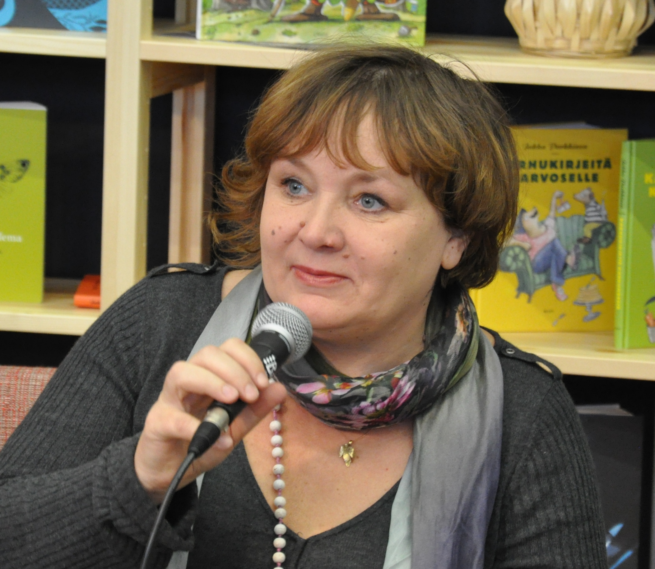 Estonian writer and documentarist Imbi Paju at the Turku Book Fair 2009.